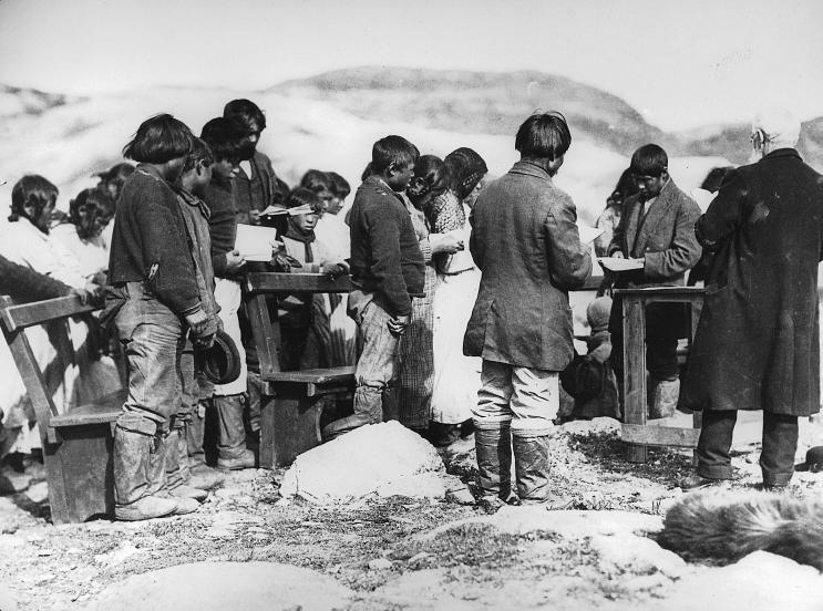 Photograph, Inuit standing at outdoor religious service, about 1919, Captain George E. Mack, Silver salts on paper mounted on paper - Gelatin silver process - 8 x 11 cm